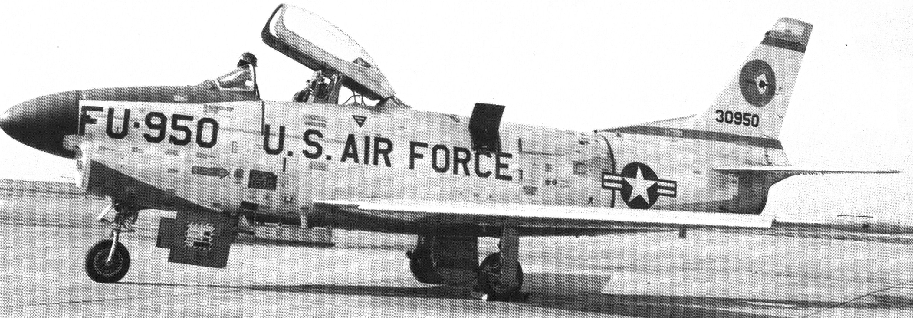 83d Fighter-Interceptor Squadron North American F-86L-60-NA Sabre 53-0950, Hamilton AFB, California, 1957